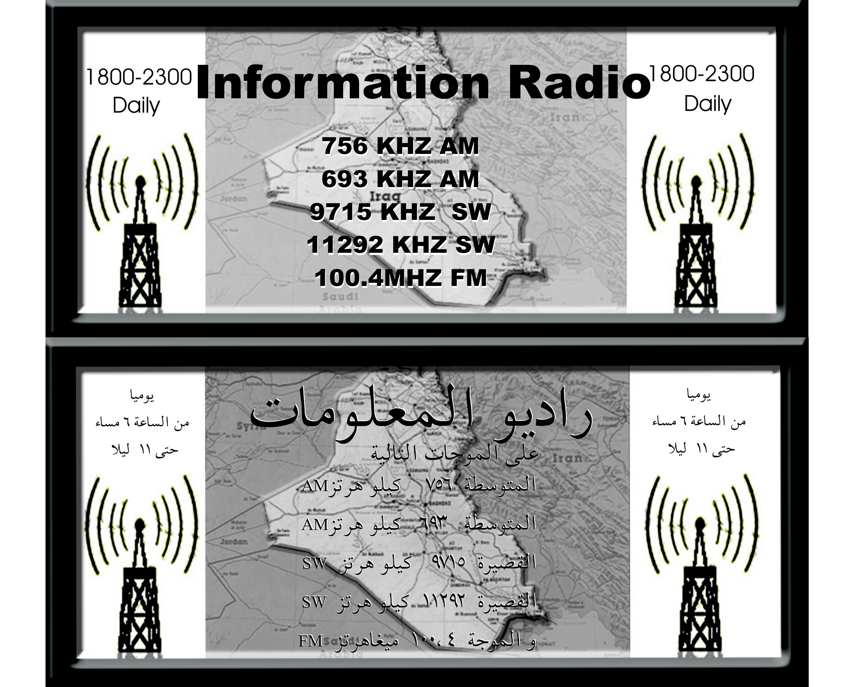 Central Command Area of Responsibility (Mar. 13, 2003) -- Coalition aircraft have been dropping leaflets encouraging Iraqis to listen for news broadcasts on special radio channels. The leaflets also mention not to shoot at coalition aircraft. Each leaflet is typically 3-by-6 inches in size, written in Arabic, and are dropped in fiberglass containers that explode over designated areas to increase scatter and drift to the ground. The example shown is the Arabic version, with the English translation provided for information purposes. DOD Graphic Illustration. (RELEASED)